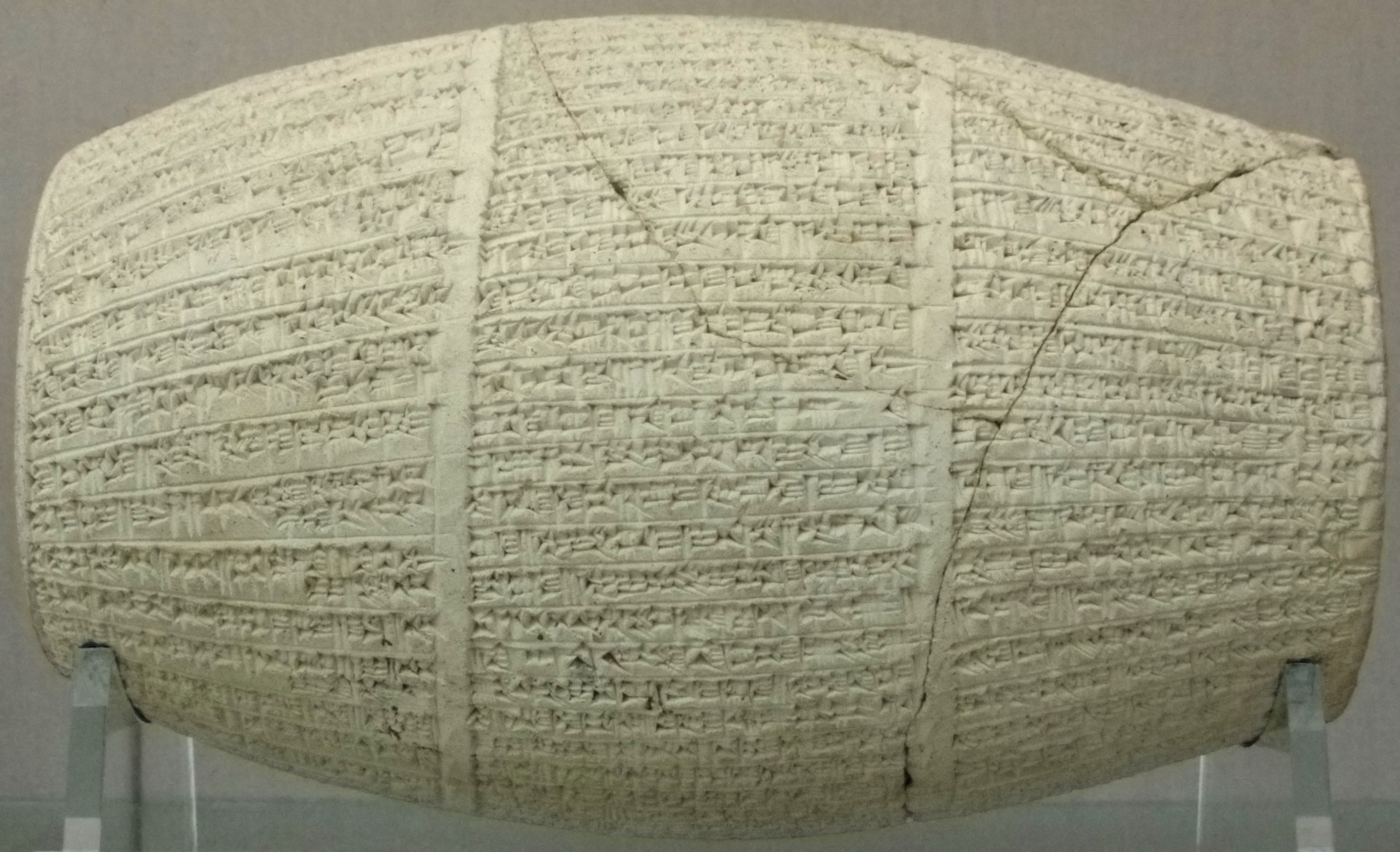 Cuneiform clay foundation cylinder of Nabonidus. 555BC-540BC Neo-Babylonian Dynasty. Excavated at the Shamash Temple.